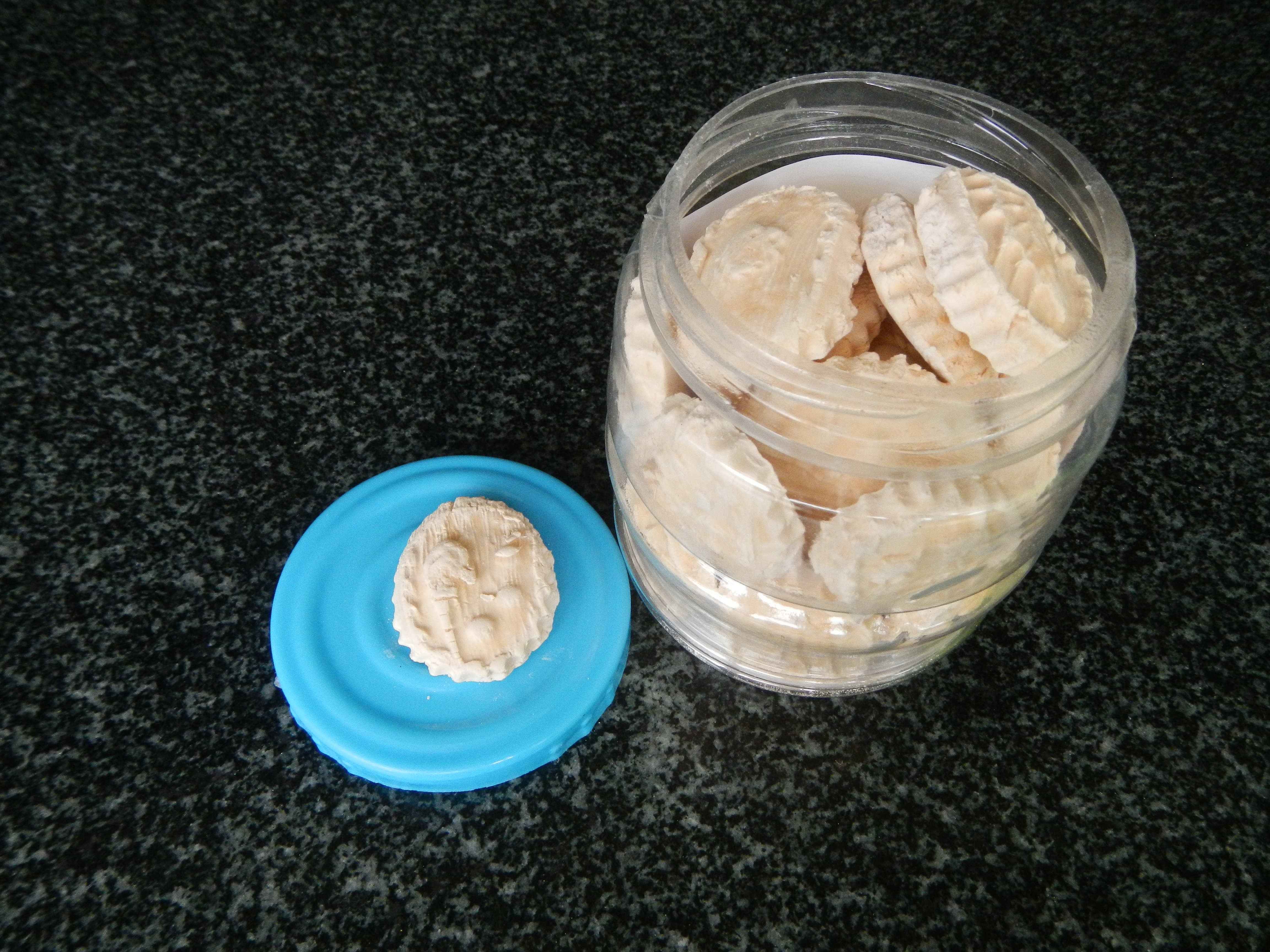 Barangay East Daang Bago (Poblacion), Samal, Bataan - Public Market in Town Proper, including the Town Hall along Samal, Bataan National Road from Bataan Provincial Expressway or Roman Super Highway, in Samal, Bataan section.